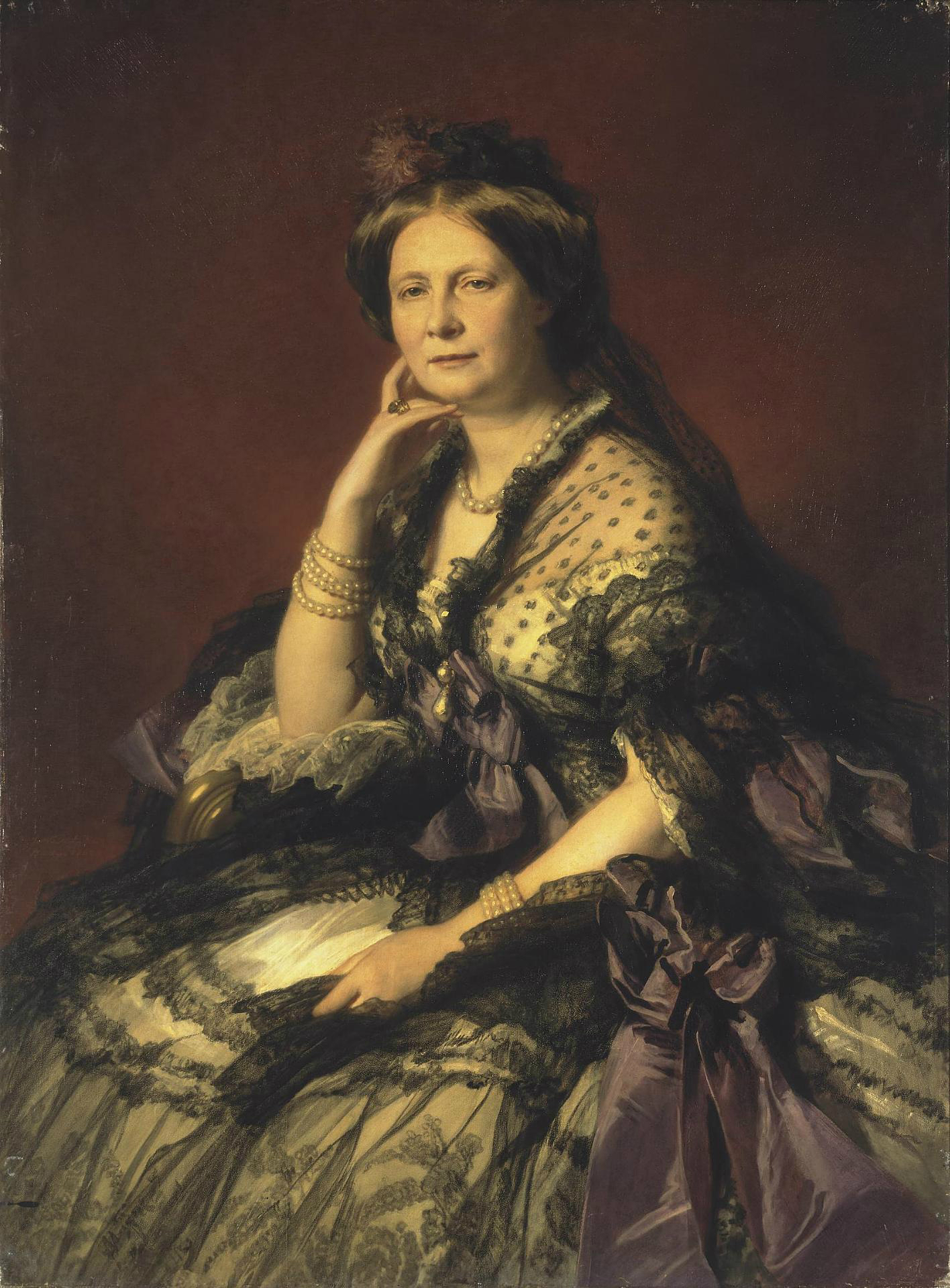 Grand Duchess Elena Pavlovna of Russia, born Princess Charlotte of Wurttemberg (1807–1873)